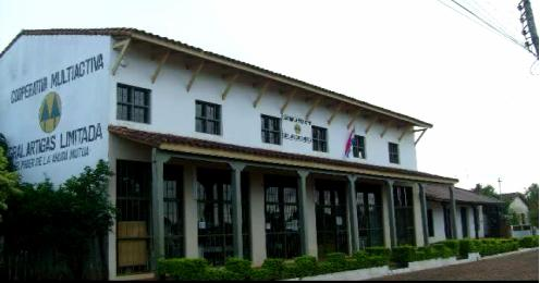 Local Renovado de la Coop. Mult. Gral. Artigas Ltda.